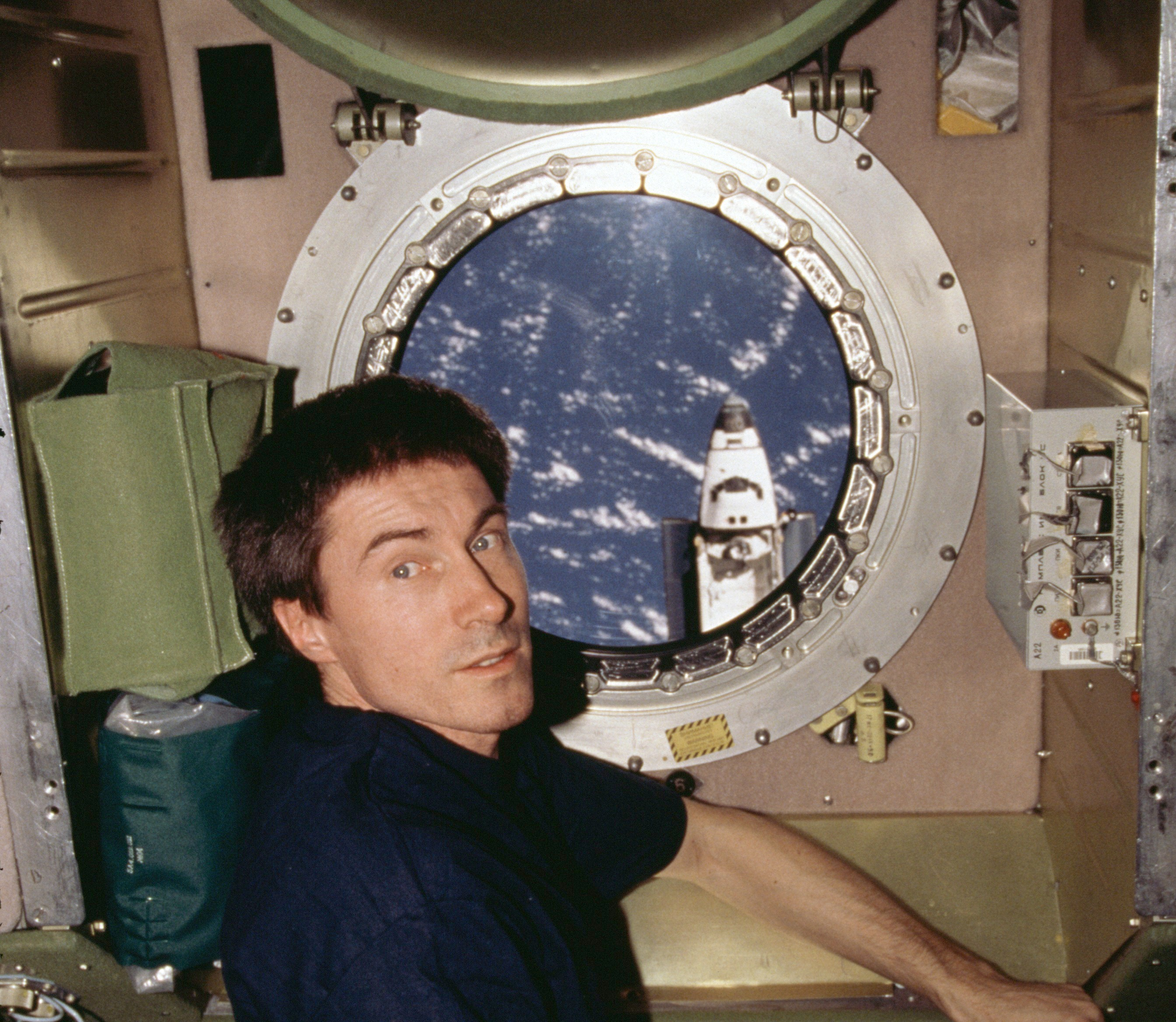 Cosmonaut Sergei K. Krikalev, flight engineer for Expedition One, is positioned at a port hole on the Zvezda service module of the International Space Station